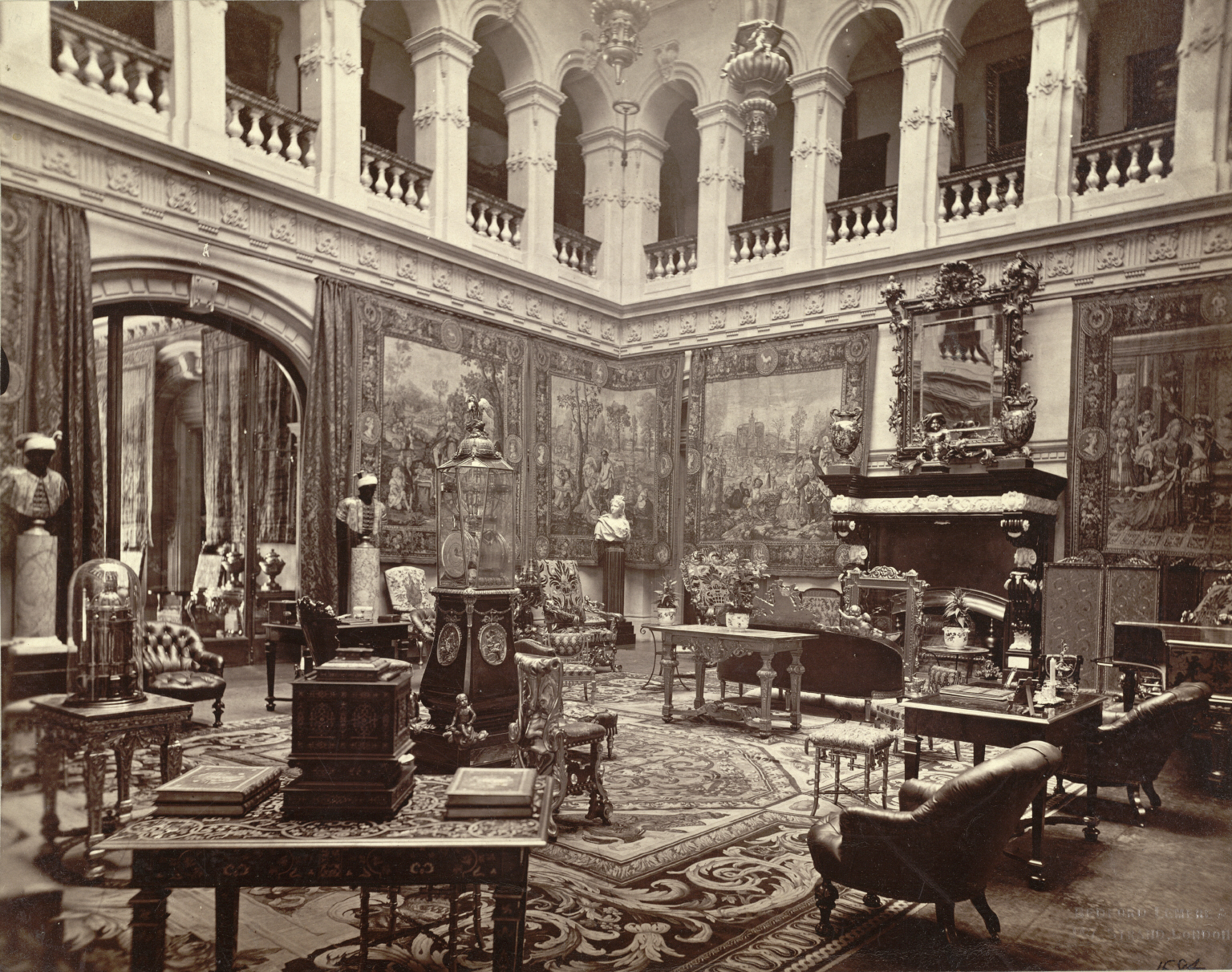 Collection: A. D. White Architectural Photographs, Cornell University Library Accession Number: 15/5/3090.00879 Title: Mentmore Towers (Rothschild Mansion), Great Hall Photographer: Henry Bedford Lemere (English, 1840-ca. 1911) Architects: Paxton & Stokes Building Date: 1855 Photograph date: ca. 1878-ca. 1890 Location: Europe: United Kingdom; Buckinghamshire Materials: albumen print Image: 8 5/8 x 11 in.; 21.9075 x 27.94 cm Provenance: Transfer from the College of Architecture, Art and Planning Persistent URI: There are no known copyright restrictions on this image. The digital file is owned by the Cornell University Library which is making it freely available with the request that, when possible, the Library be credited as its source. We had some help with the geocoding from Web Services by Yahoo! This image is from the Cornell University Library's The Commons Flickr stream. The Library has determined that there are no known copyright restrictions. This image was taken from Flickr's The Commons. The uploading organization may have various reasons for determining that no known copyright restrictions exist, such as: The copyright is in the public domain because it has expired; The copyright was injected into the public domain for other reasons, such as failure to adhere to required formalities or conditions; The institution owns the copyright but is not interested in exercising control; or The institution has legal rights sufficient to authorize others to use the work without restrictions. More information can be found at Please add additional copyright tags to this image if more specific information about copyright status can be determined. See Commons:Licensing for more information.No known copyright restrictionsNo restrictions